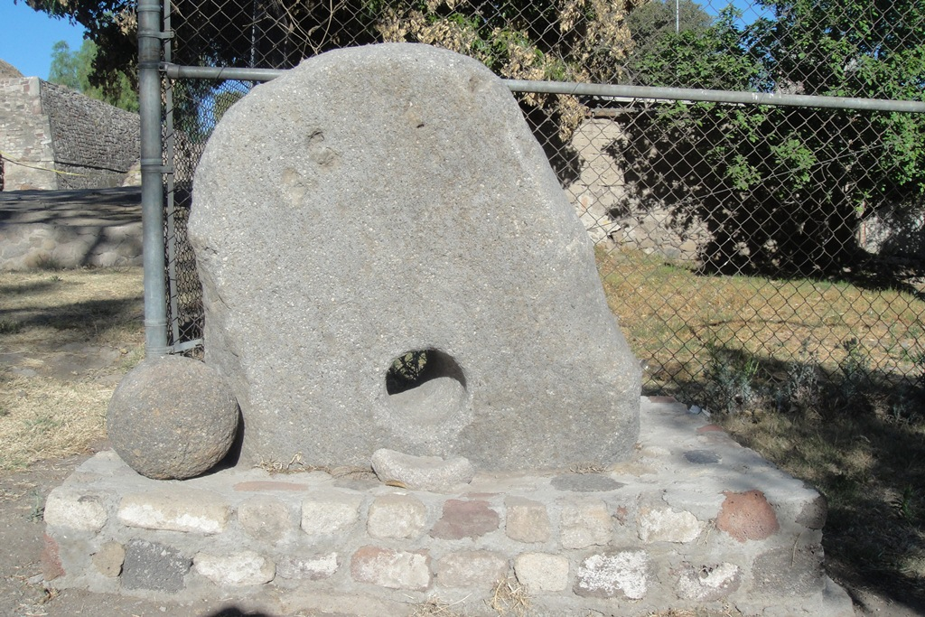 Template:Huexotla, monolith